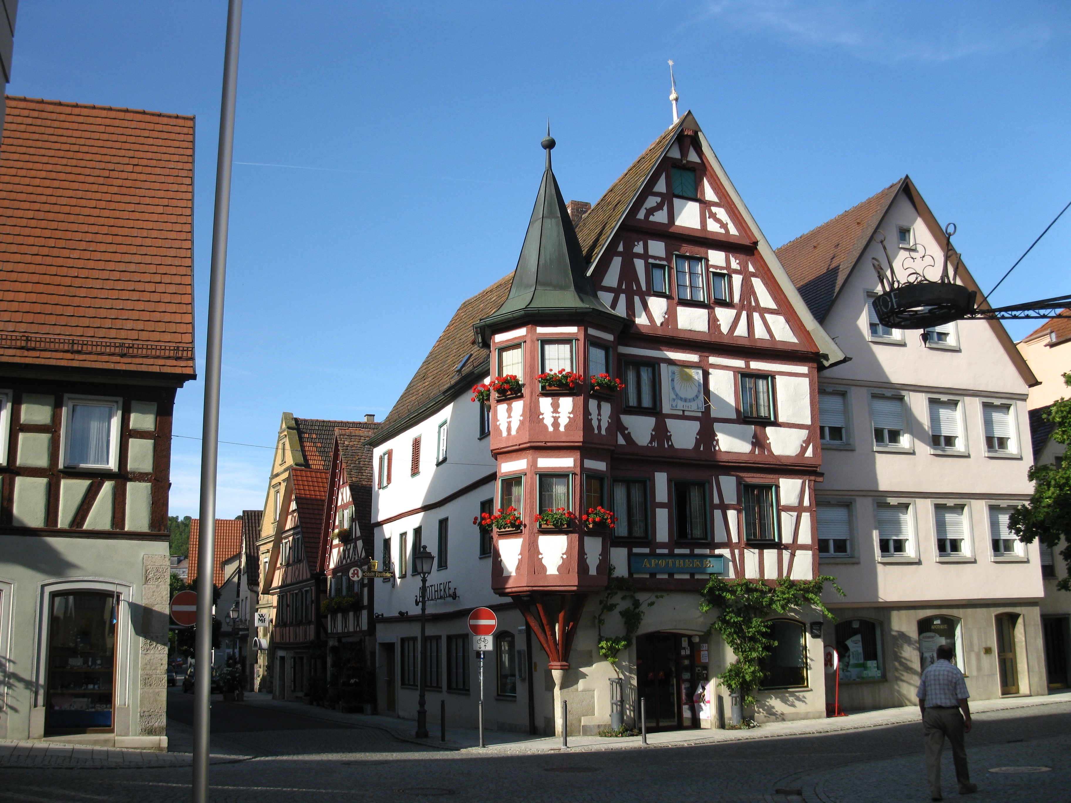 Old pharmacy, Creglingen, Germany.